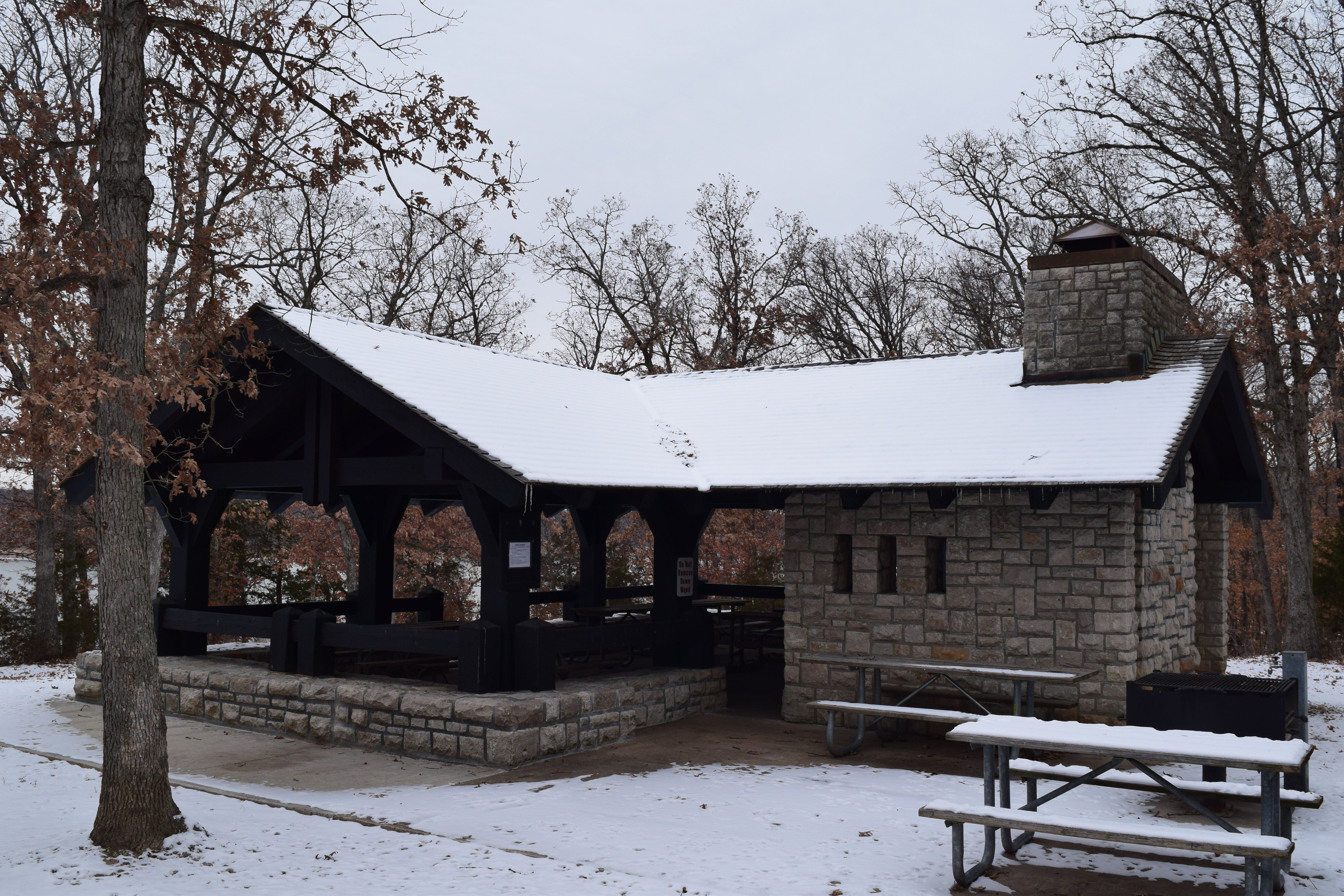 The CCC-built picnic shelter at Mark Twain State Park in Monroe County, Missouri. The shelter is listed on the National Register of Historic Places.